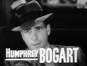 Screenshot of Humphrey Bogart from the trailer for the film Invisible Stripes.